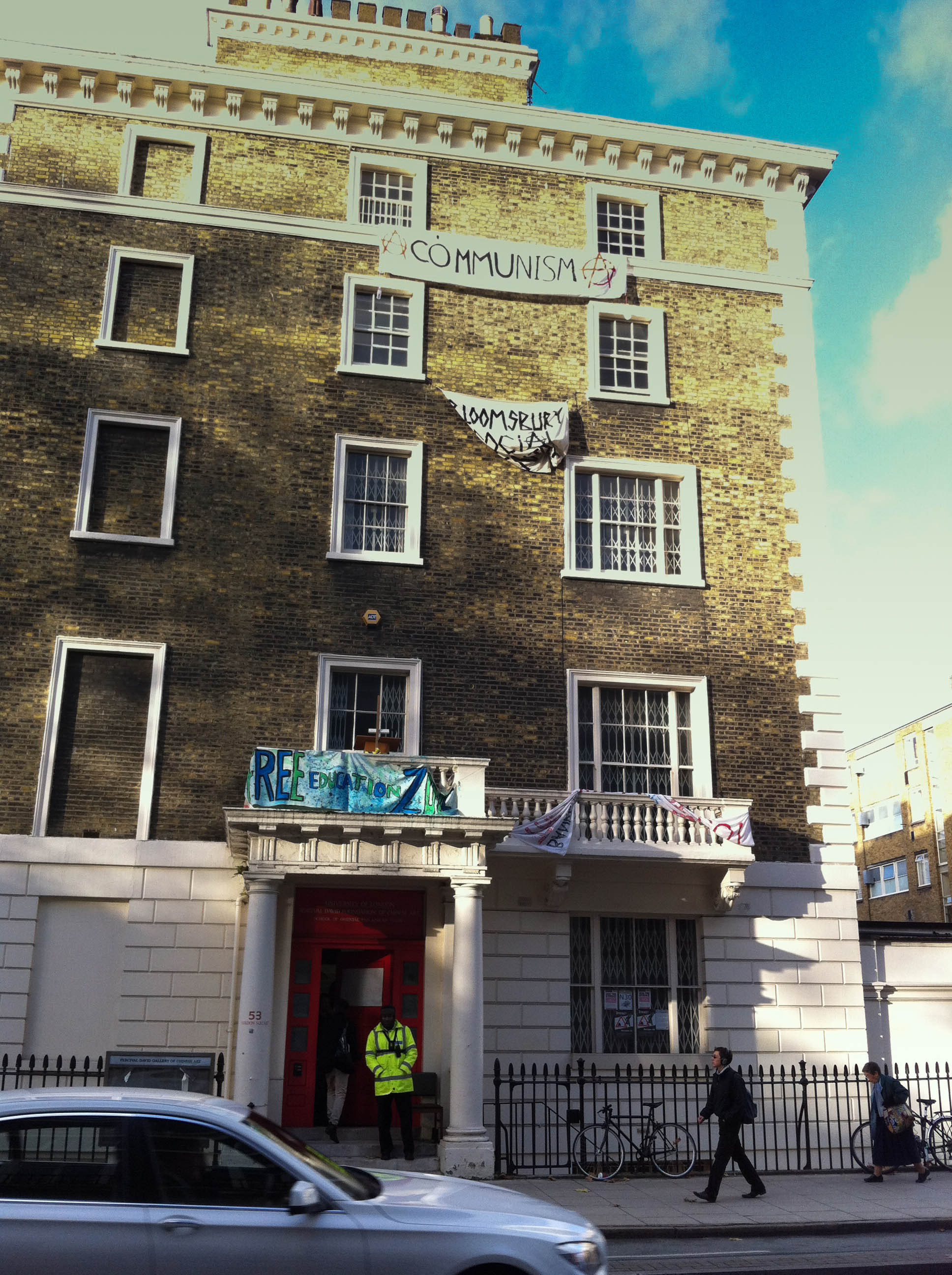 53 Gordon Square. A security guard is positioned outside - presumably working for SOAS/the University. The lowest banner is something about Free Education, and the top one @ Communism @. Whether this is meant to be anarchist communism or whether they are just random anti-capitalists I don't know.